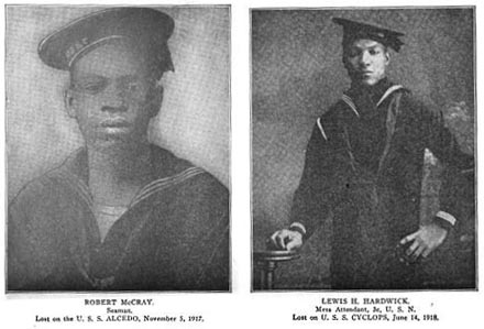 Robert McCray and Louis Hardwick, Two Sailors in the US Navy, 1916